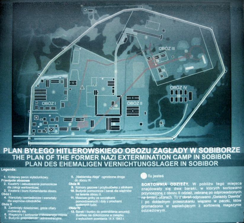 Sobibor Extermination Camp plan